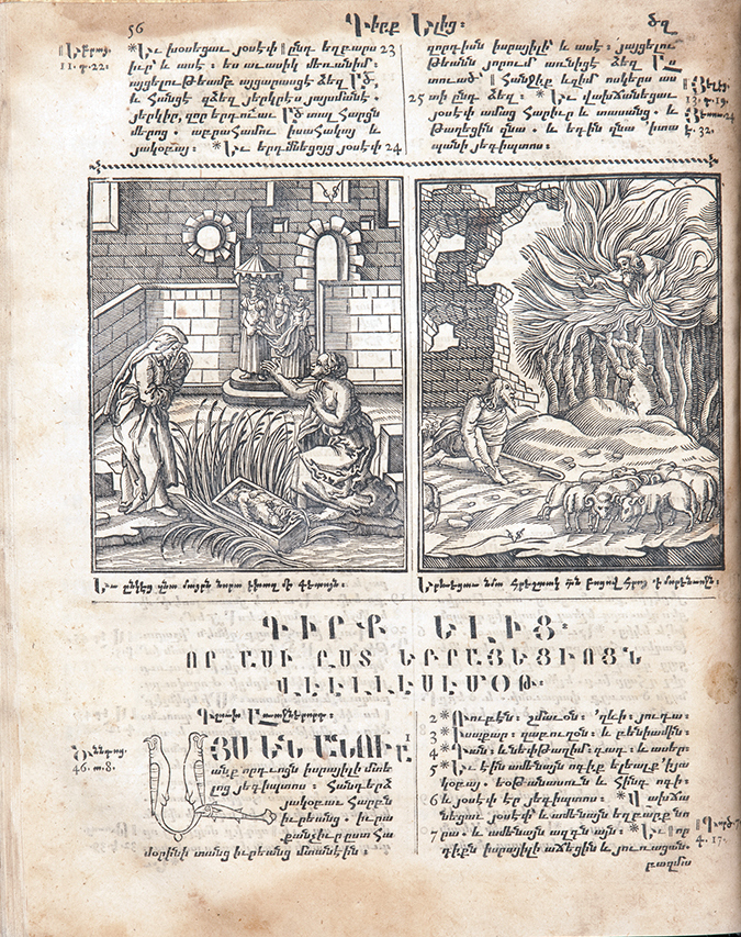 Book of Exodus, (Bible), edited by Oskan Erewants‘i, Amsterdam Tparan St. Ejmiatsin and St. Sargis the General